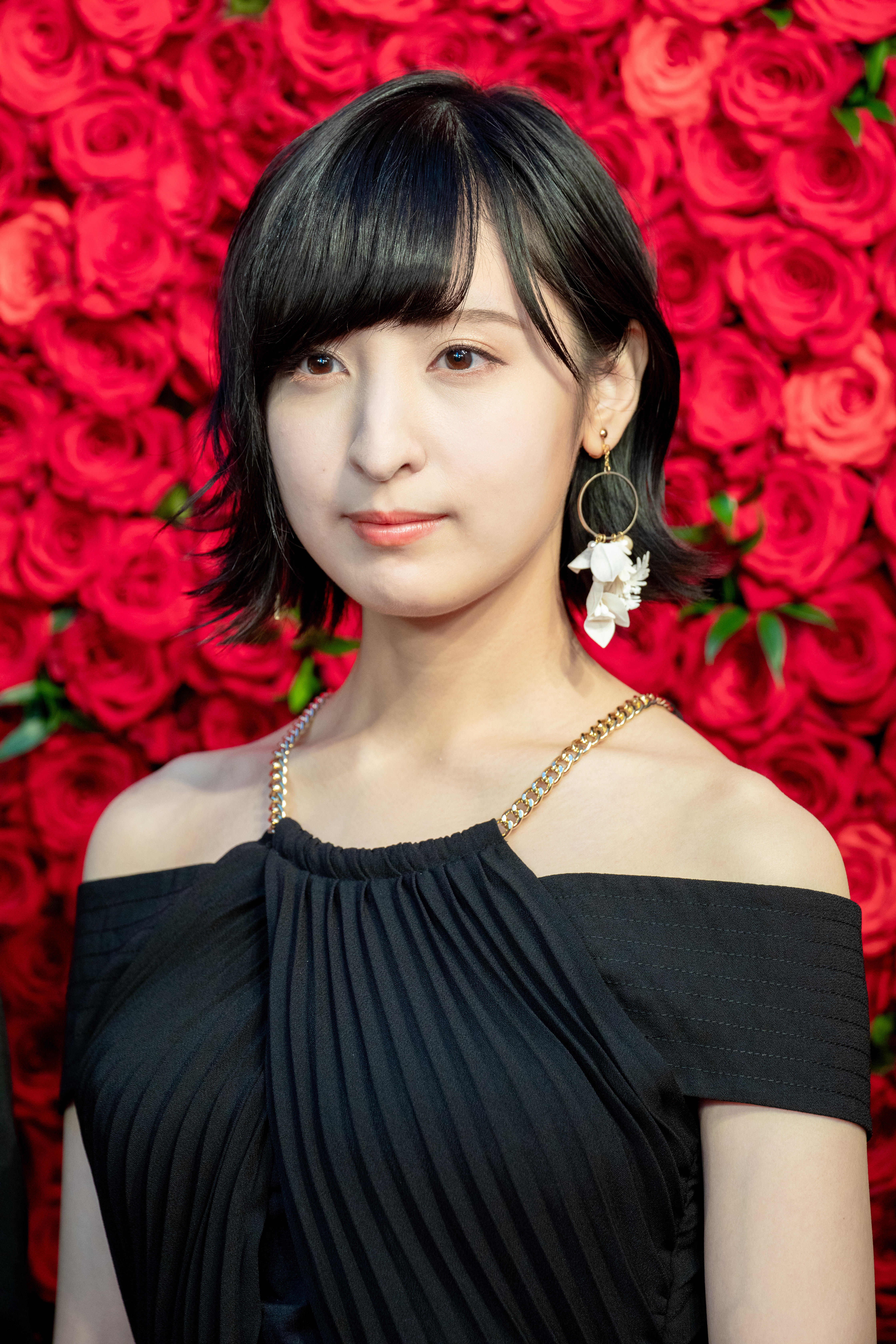 第30回 東京国際映画祭 オープニングセレモニー 佐倉綾音 (PSYCHO-PASS サイコパス Sinners of the System Case.1 罪と罰 & Case.2 First Guardian)